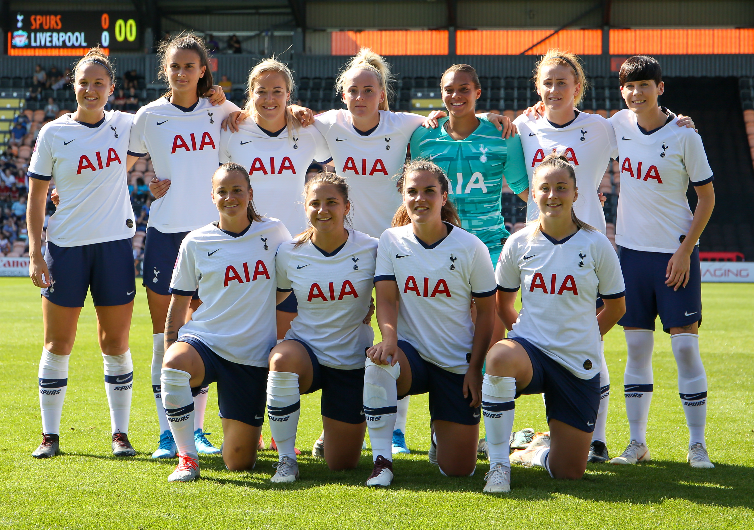 2019–20 FA WSL: Tottenham Hotspur FC Women v Liverpool FC Women, 15 September 2019 – Tottenham Hotspur starting line-up.